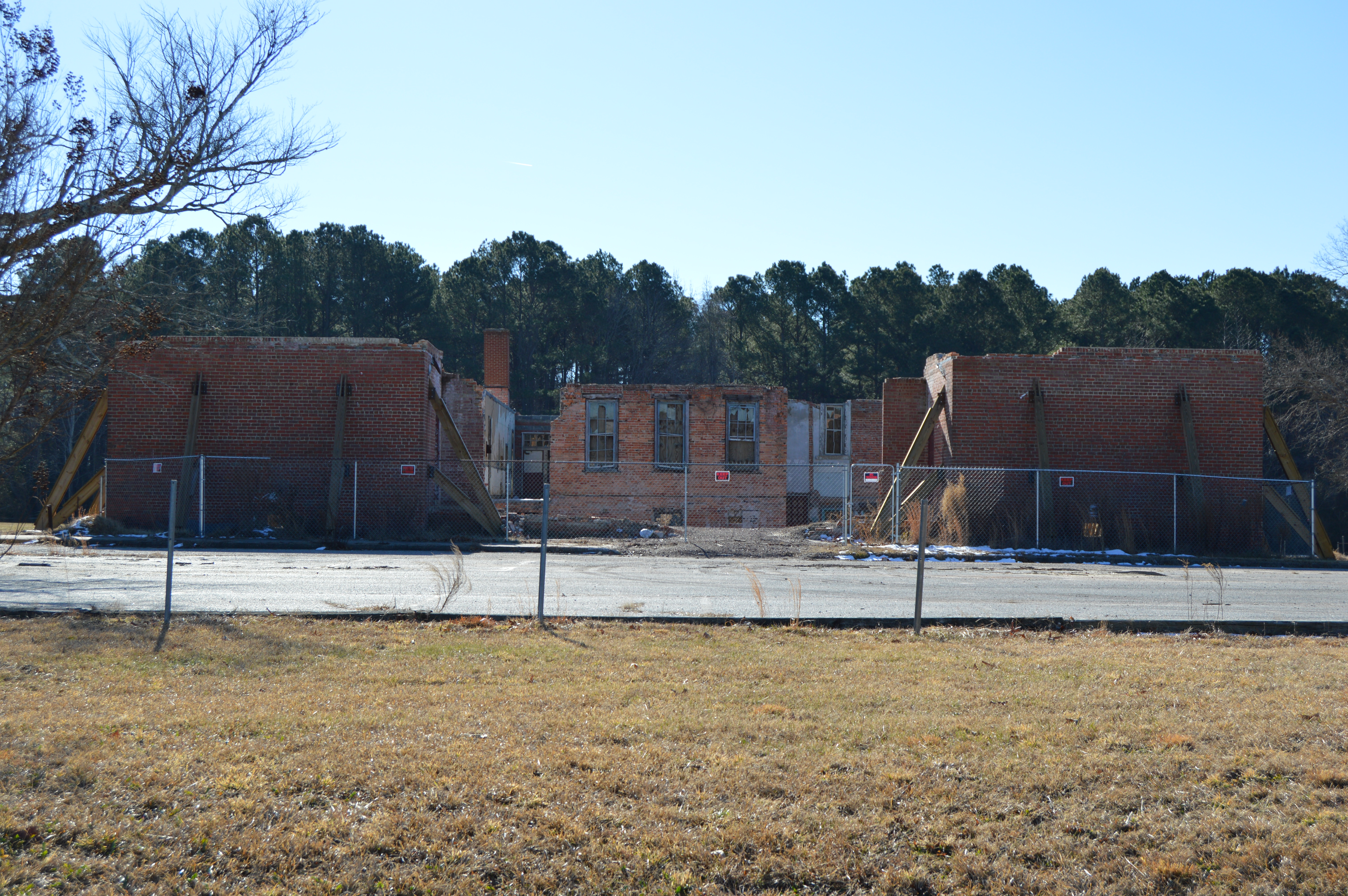 Front of the Nansemond County Training School (apparently damaged and undergoing reconstruction), located at 9307 Southwestern Boulevard in Suffolk, Virginia, United States. Built in 1924, it is listed on the National Register of Historic Places.